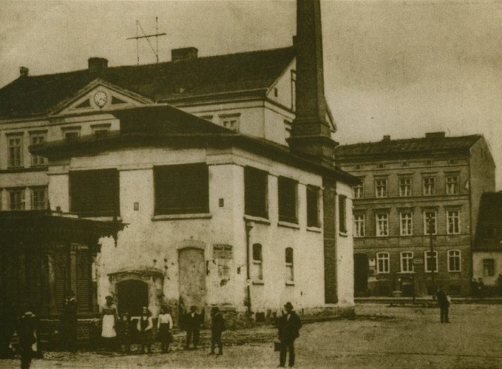 Old brewery in Grodzisk Wielkopolski (Poland)